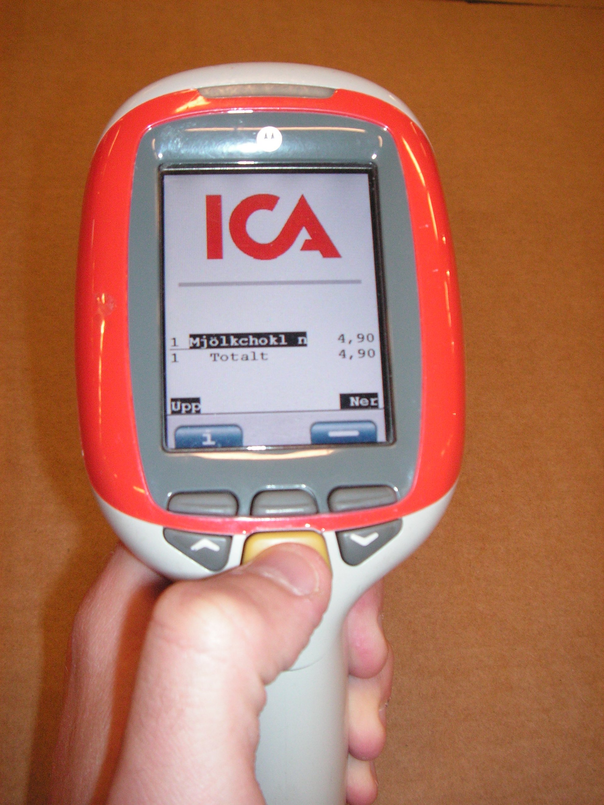 Self checkout scanner.